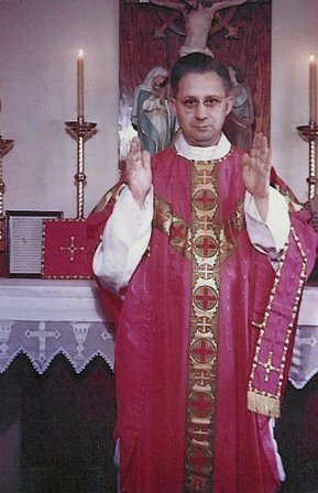 Catholic priest with red chasuble and red maniple hanging from his left arm.